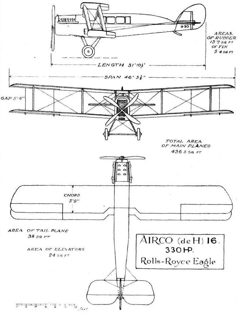 Three-view drawing of Airco (De Havilland) DH.16.